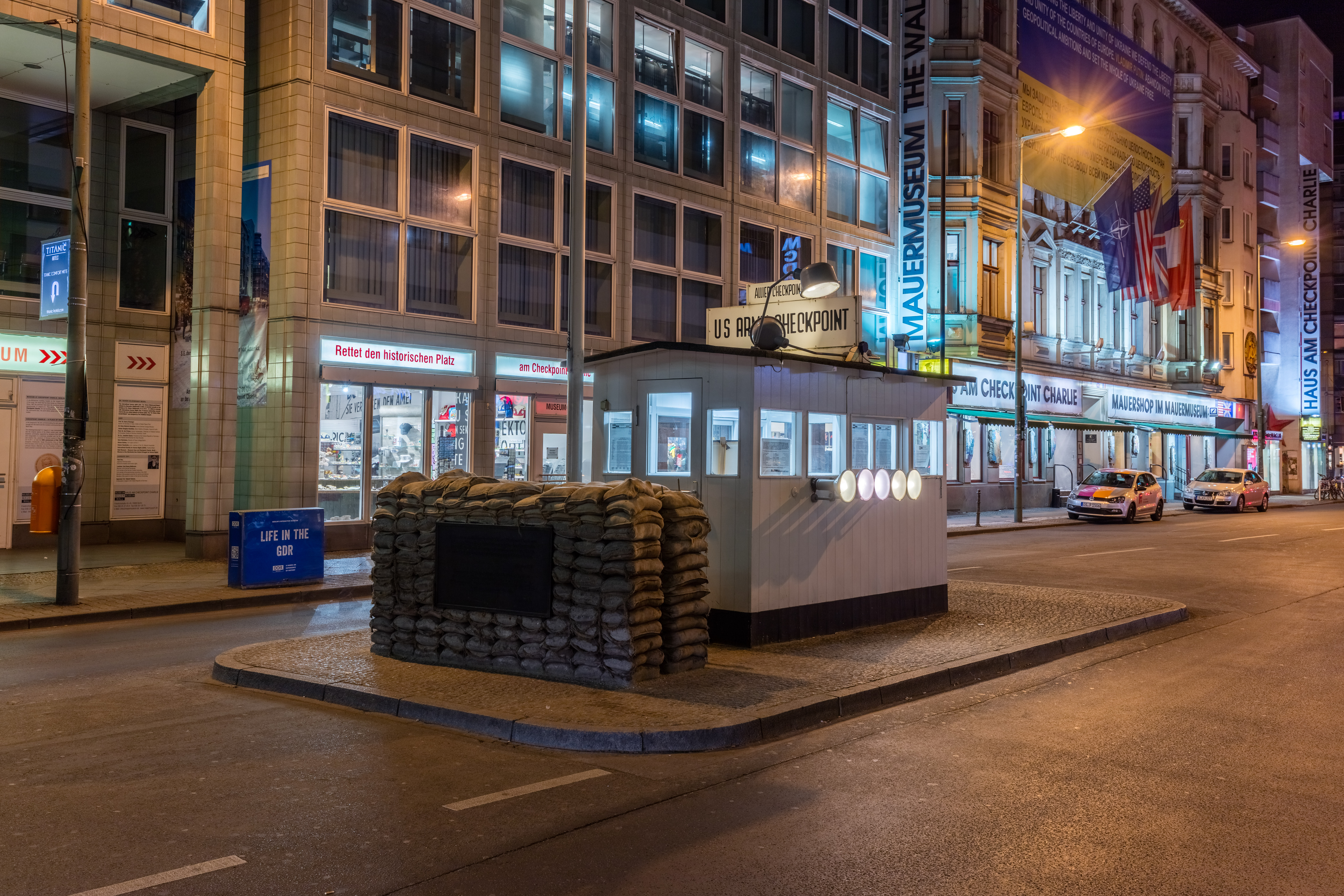 Checkpoint Charlie memorial, Berlin, Germany